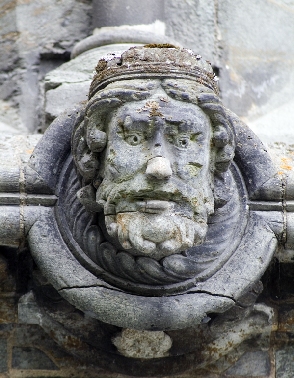 Head from the oktogone at the Nidaros Cathedral.